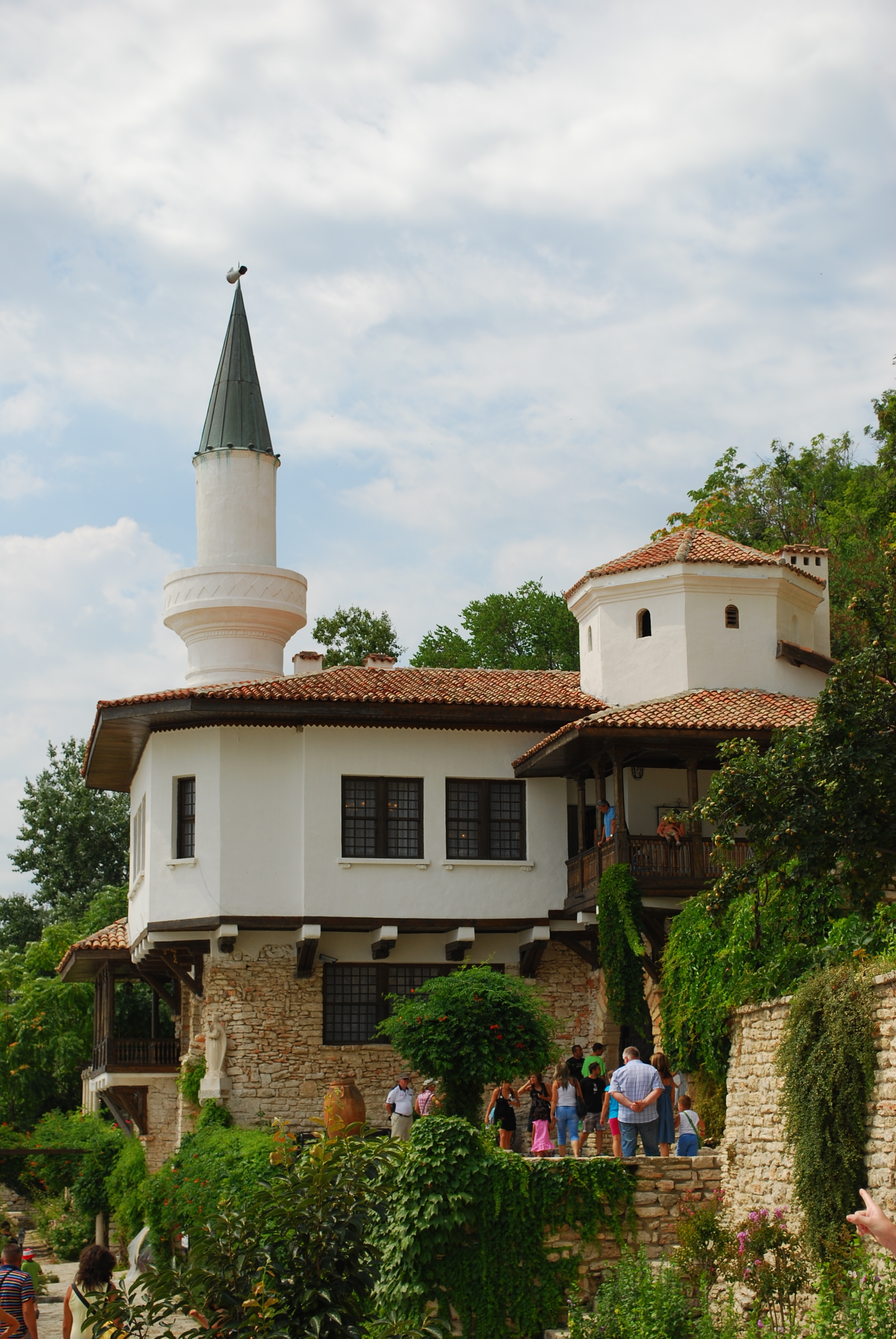 Castle of queen Marie of Romania in Balchik, Dobrich Region, Bulgaria